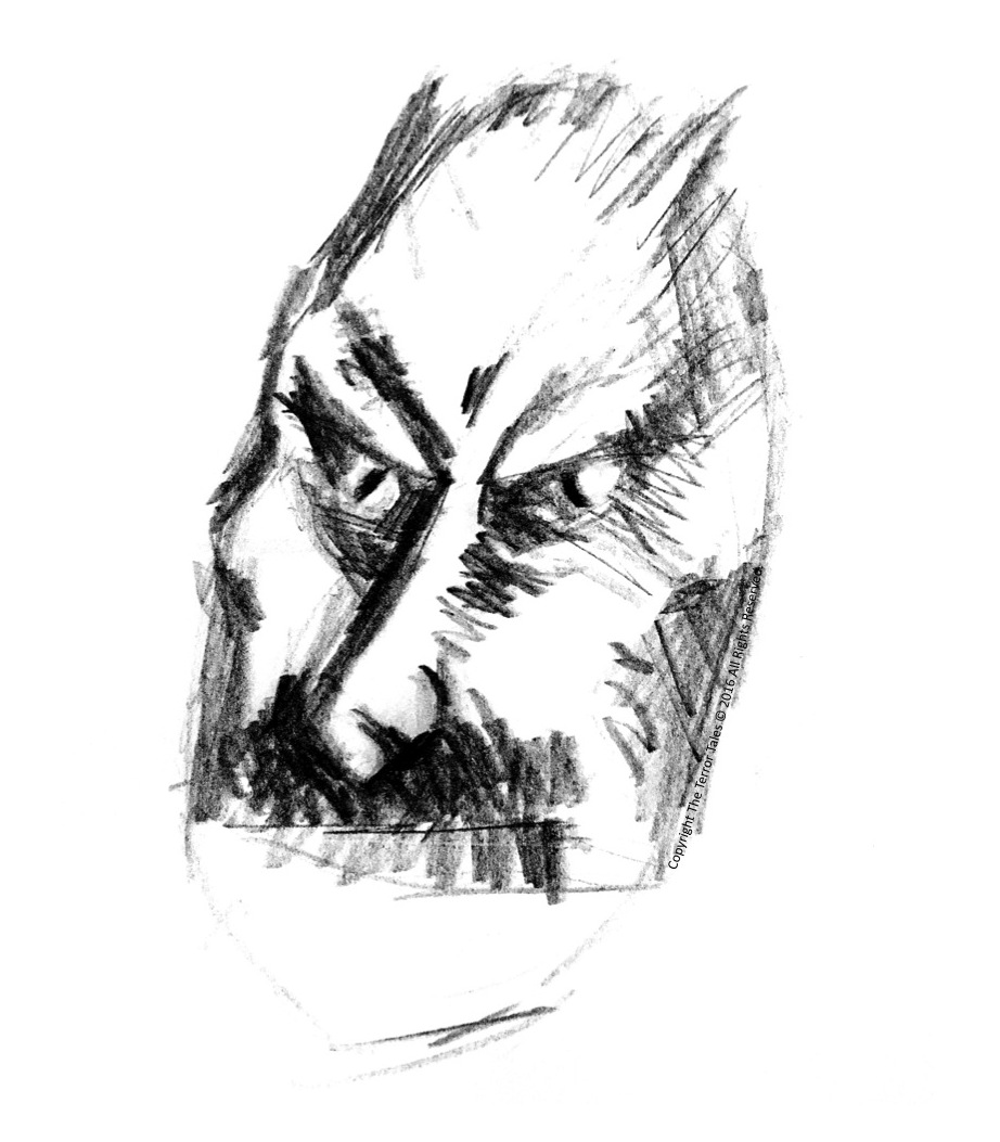 Hunter Finn